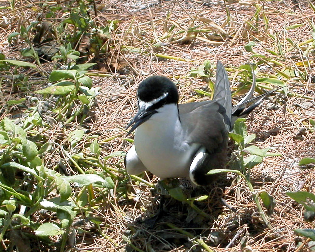 Bridled Tern, Onychoprion anaethetus